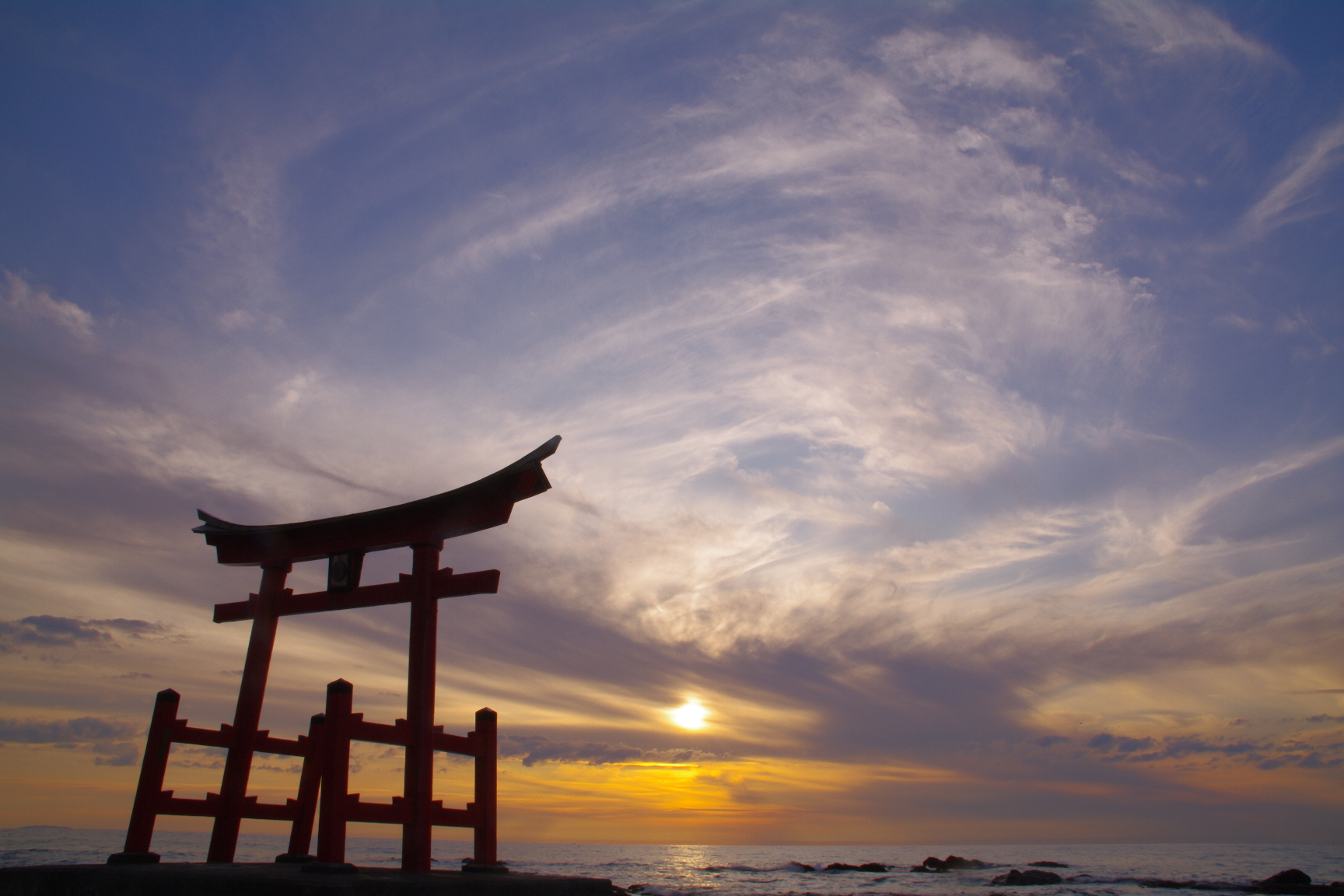 Shosanbetsu villege wooden torii, Hokkaido.